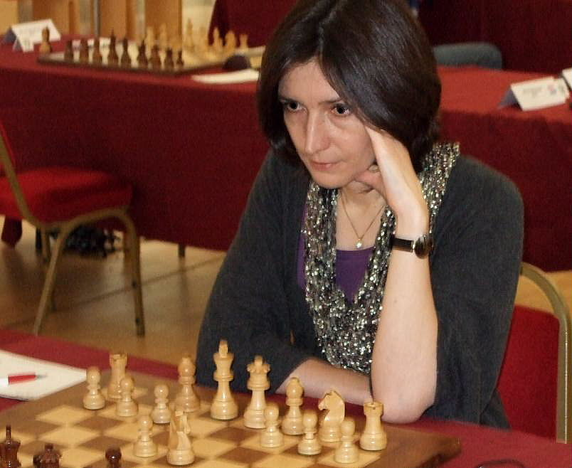 IM (& WGM) Ketevan Arakhamia-Grant - Round 7 of 4th EU Individual Open Ch., Liverpool World Museum, William Brown Street